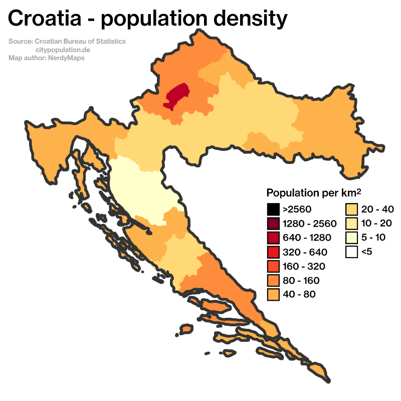 A map representing population density in Croatia by county